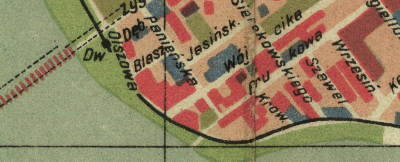 Fragment of a map described as "Map of Warsaw at scale 1:20 000 and inventory of the destruction perpetrated by the Germans during the war 1939-1945"; complete map